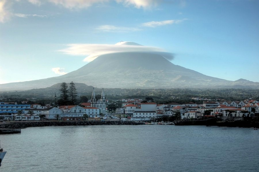 The mountain Pico on the island Pico. The village Madalena is seen below. Picture taken i dawn from the Madalena port.